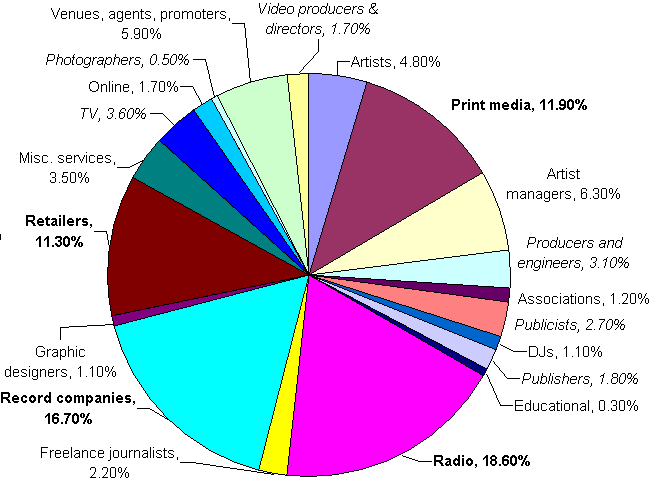 I (user: Pfctdayelise) made this chart, using data from (accessed 14 November 2005) with the title "The 2005 judging academy is made up of the following voters."